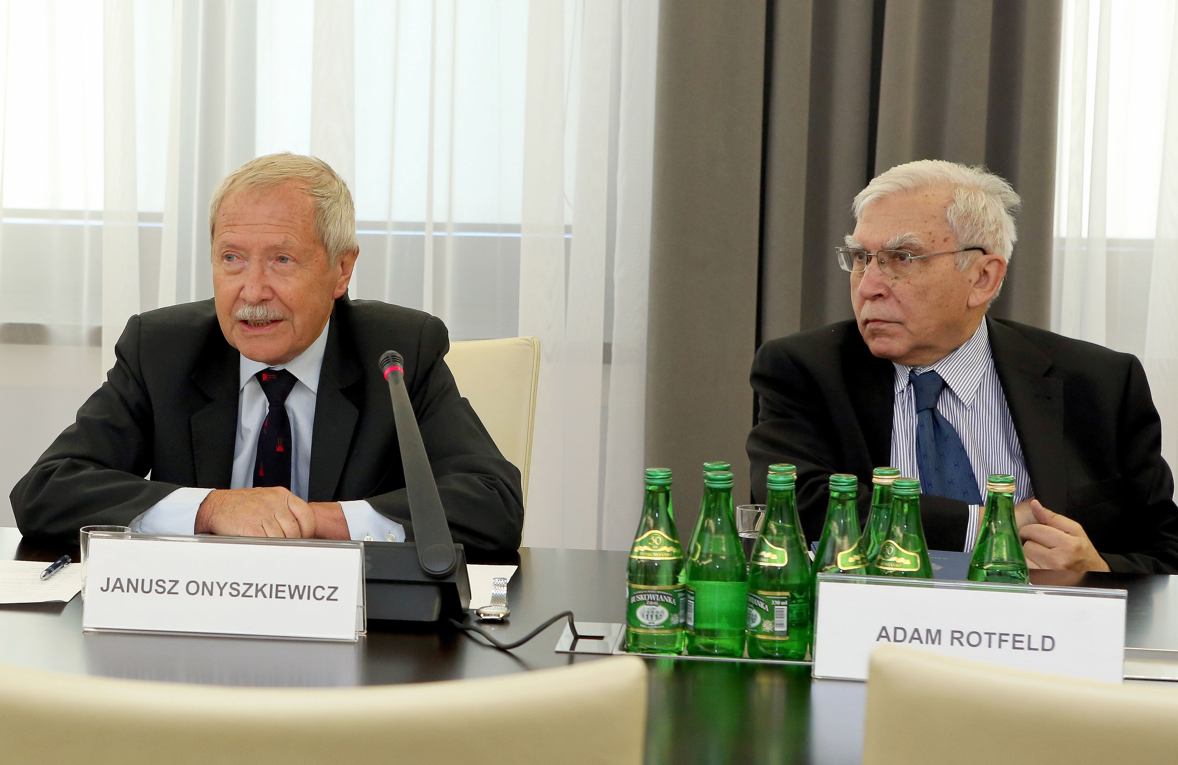 Janusz Onyszkiewicz and Adam Rotfeld during the conference "Poland in NATO: 15 years on"